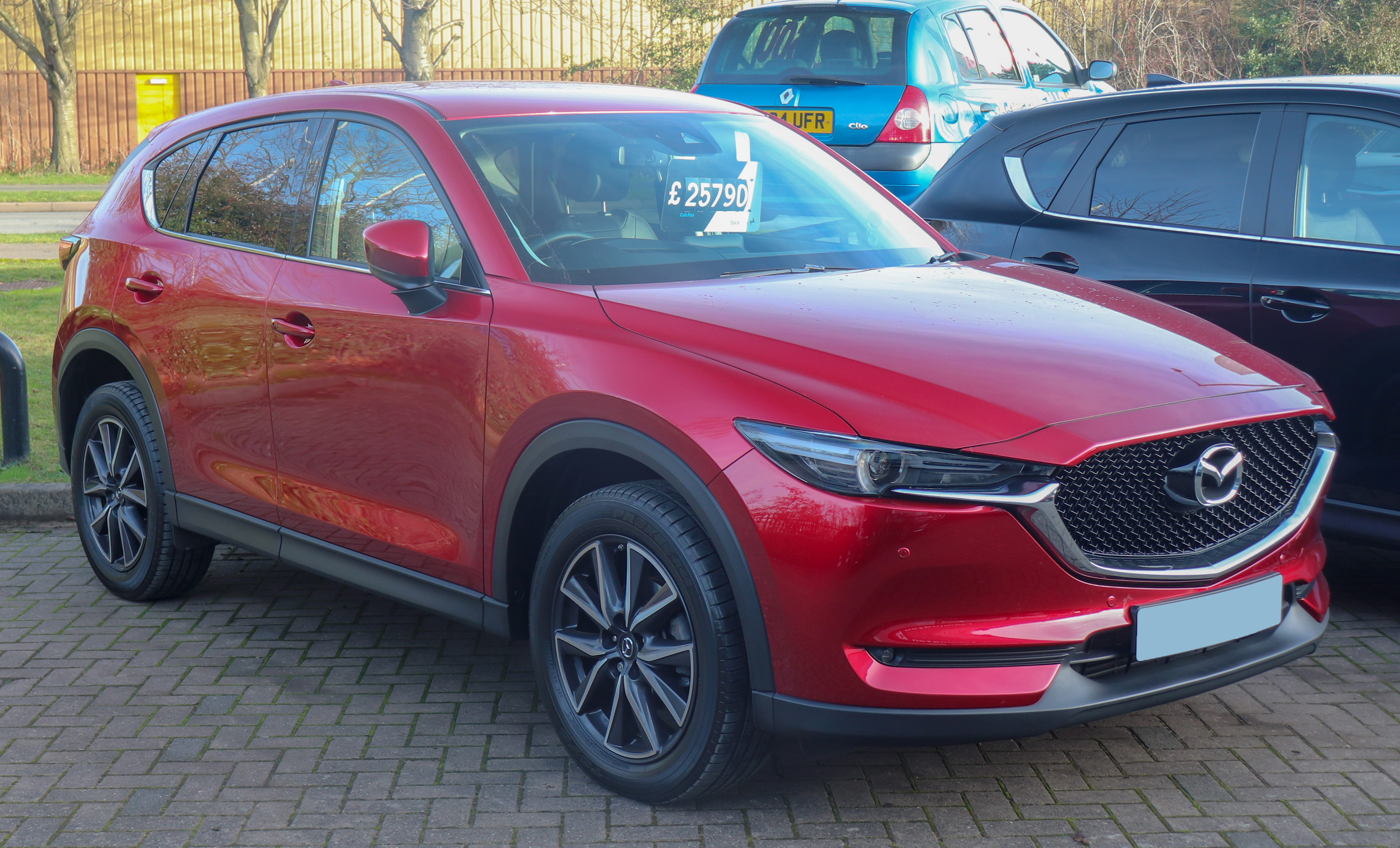 2018 Mazda CX-5 Sport NAV Diesel Automatic 2.2 Taken in Leamington Spa